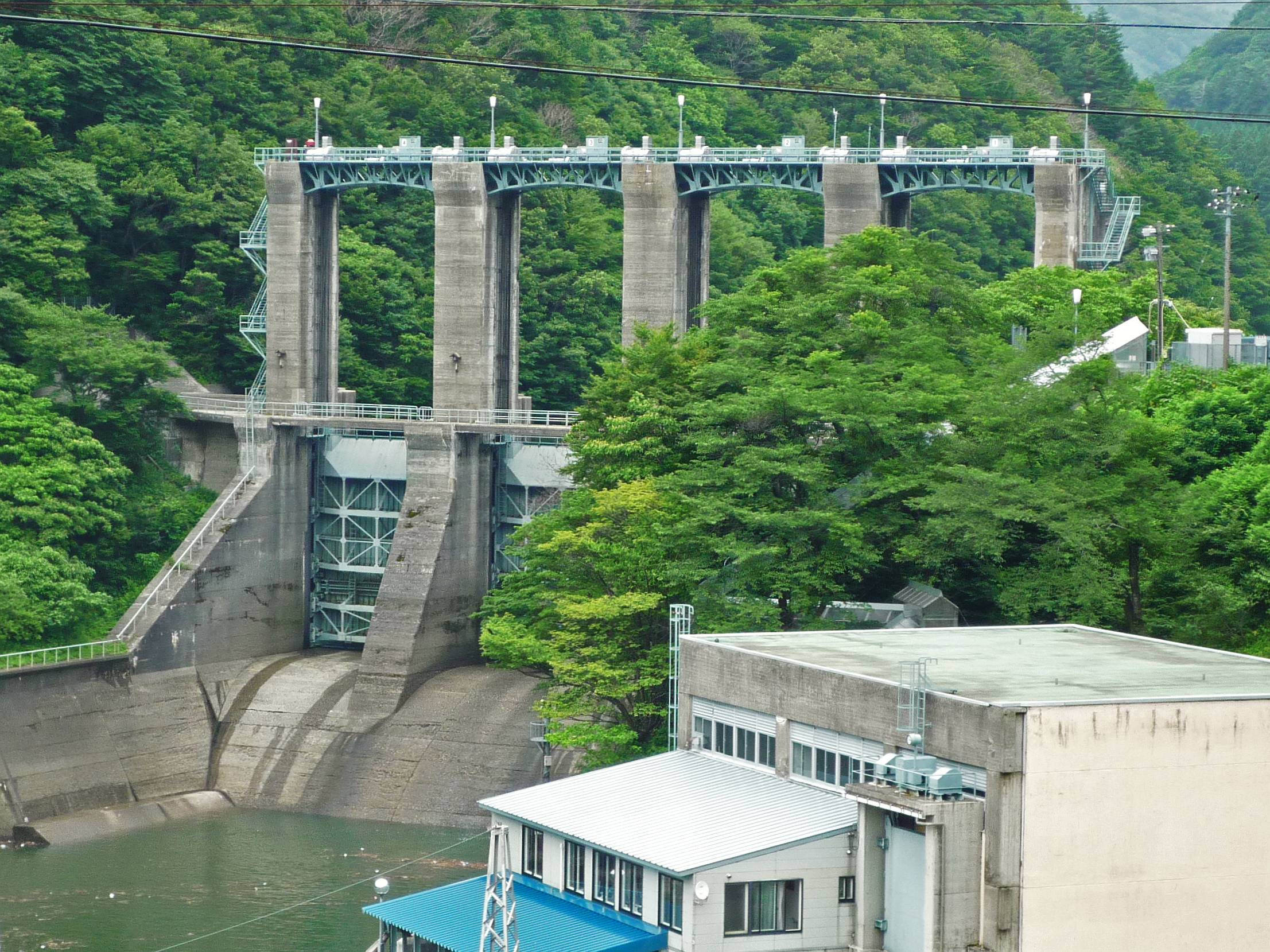 Iwafune Dam.